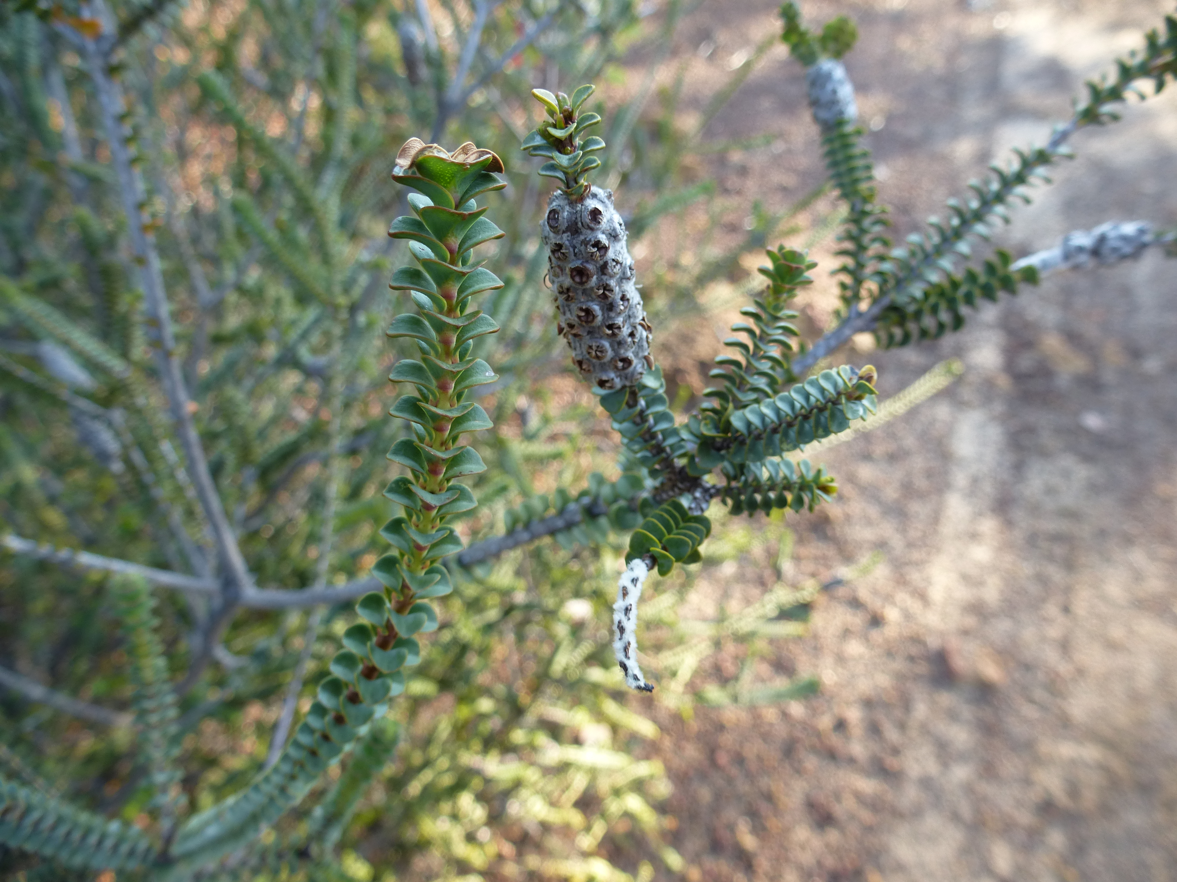 Beaufortia orbifolia growing on the Ravensthorpe Range